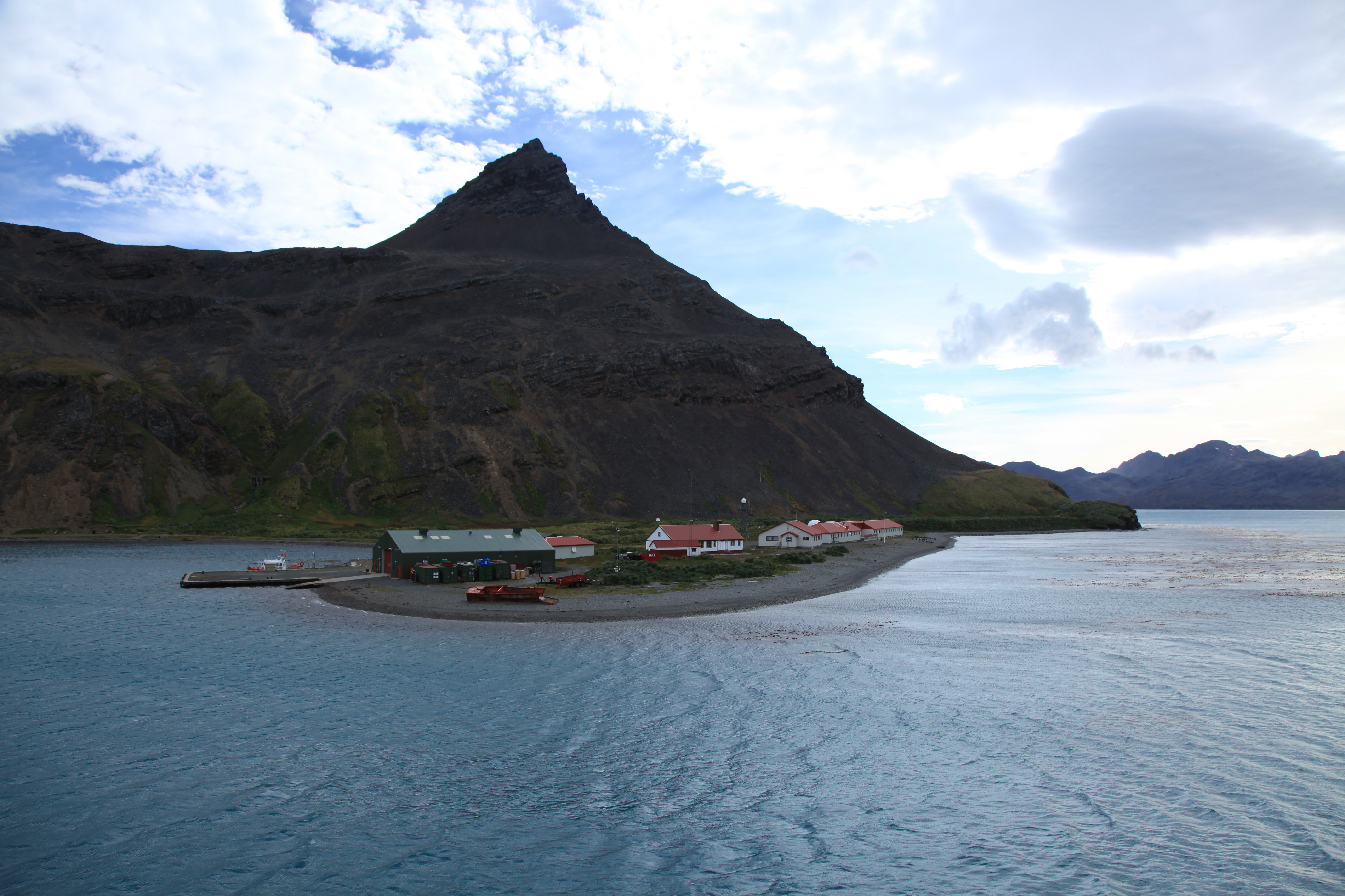 The British Antarctic Survey runs a research station at King Edward Point.